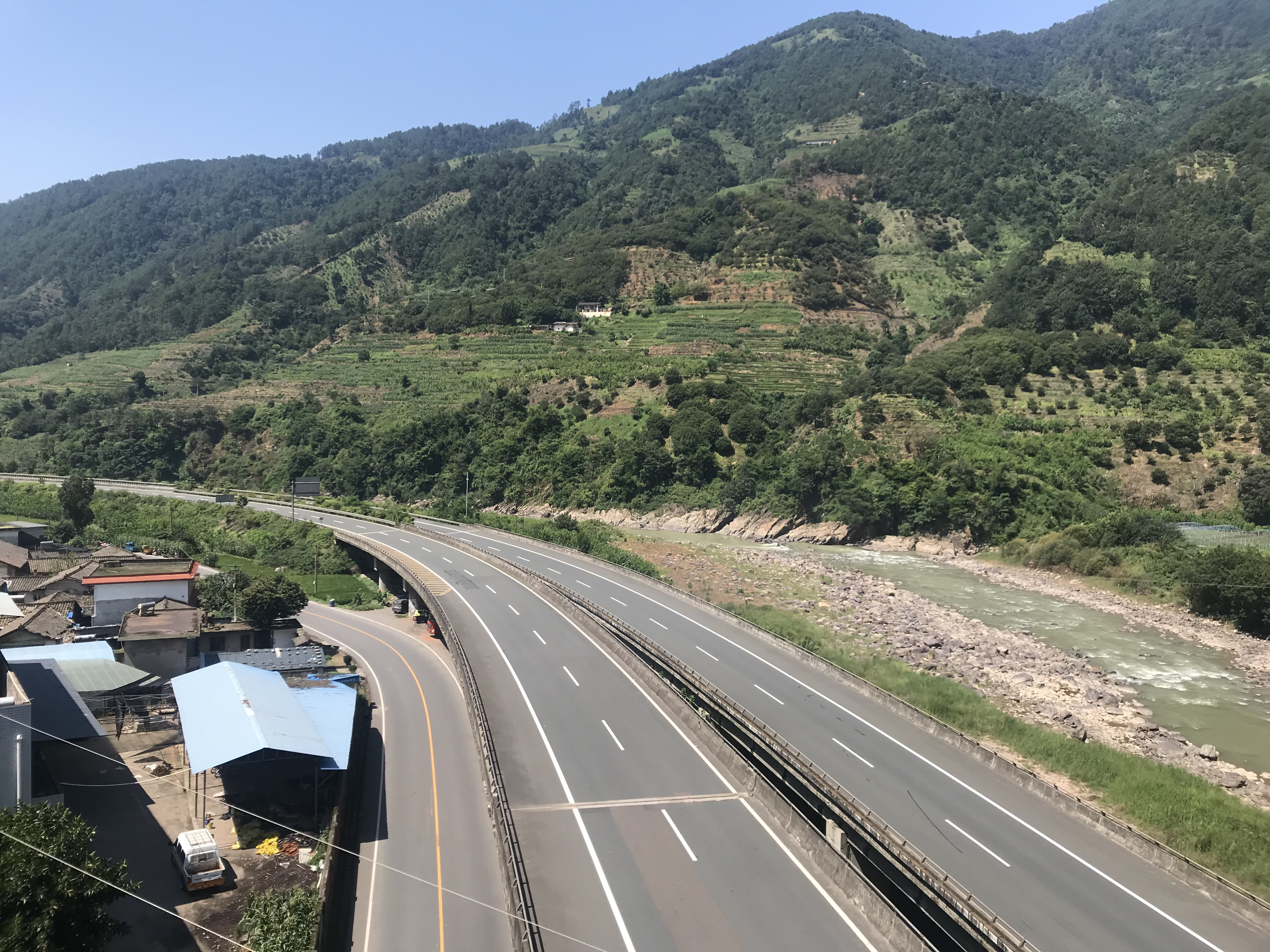 201908 G5 Jingkun Expressway in Luoguodi